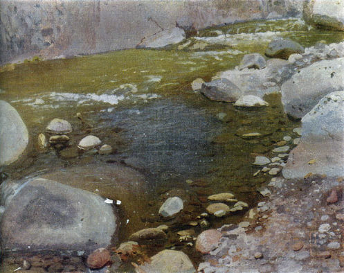 Stones on the river Algetke